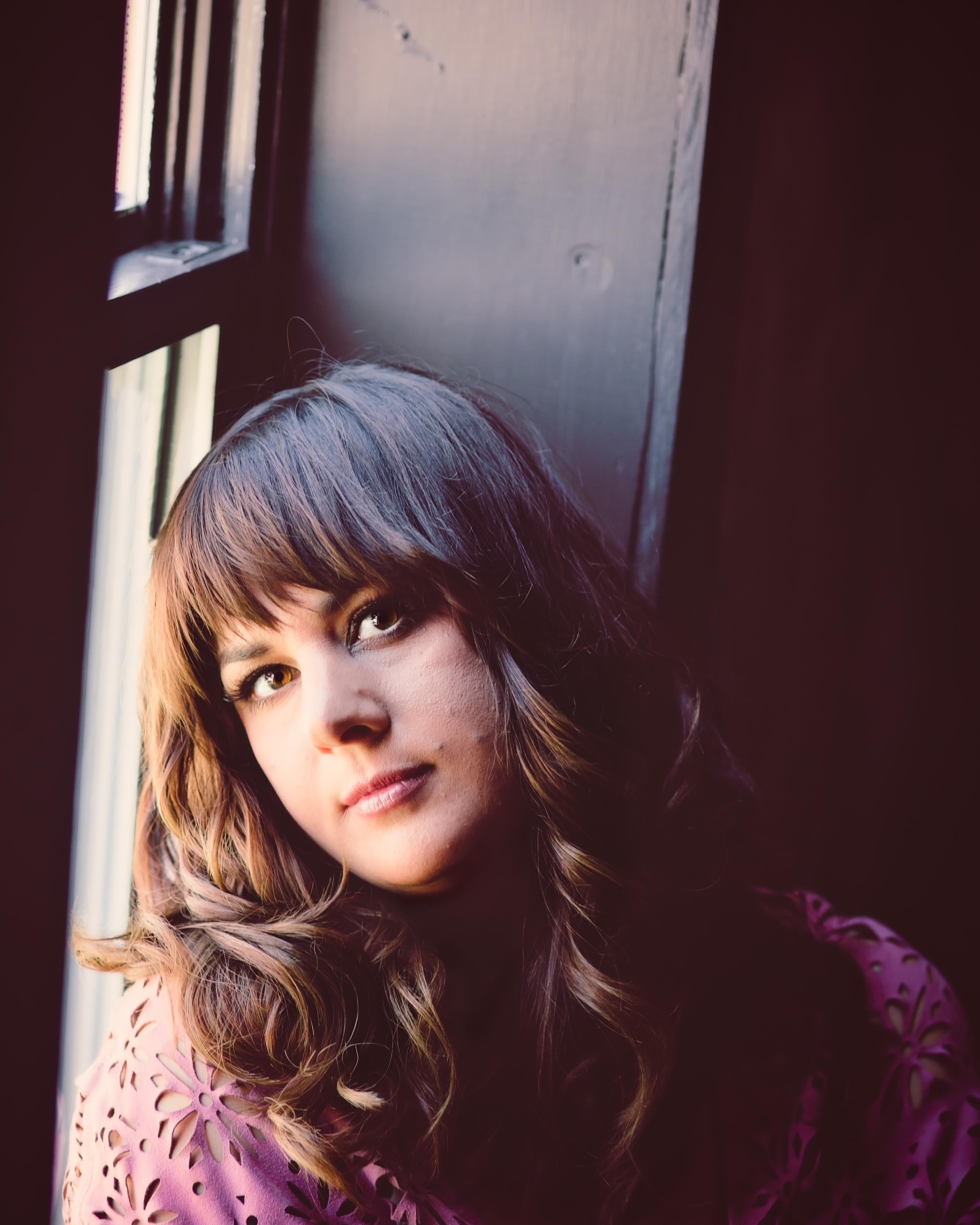 Rumor by window with dark background